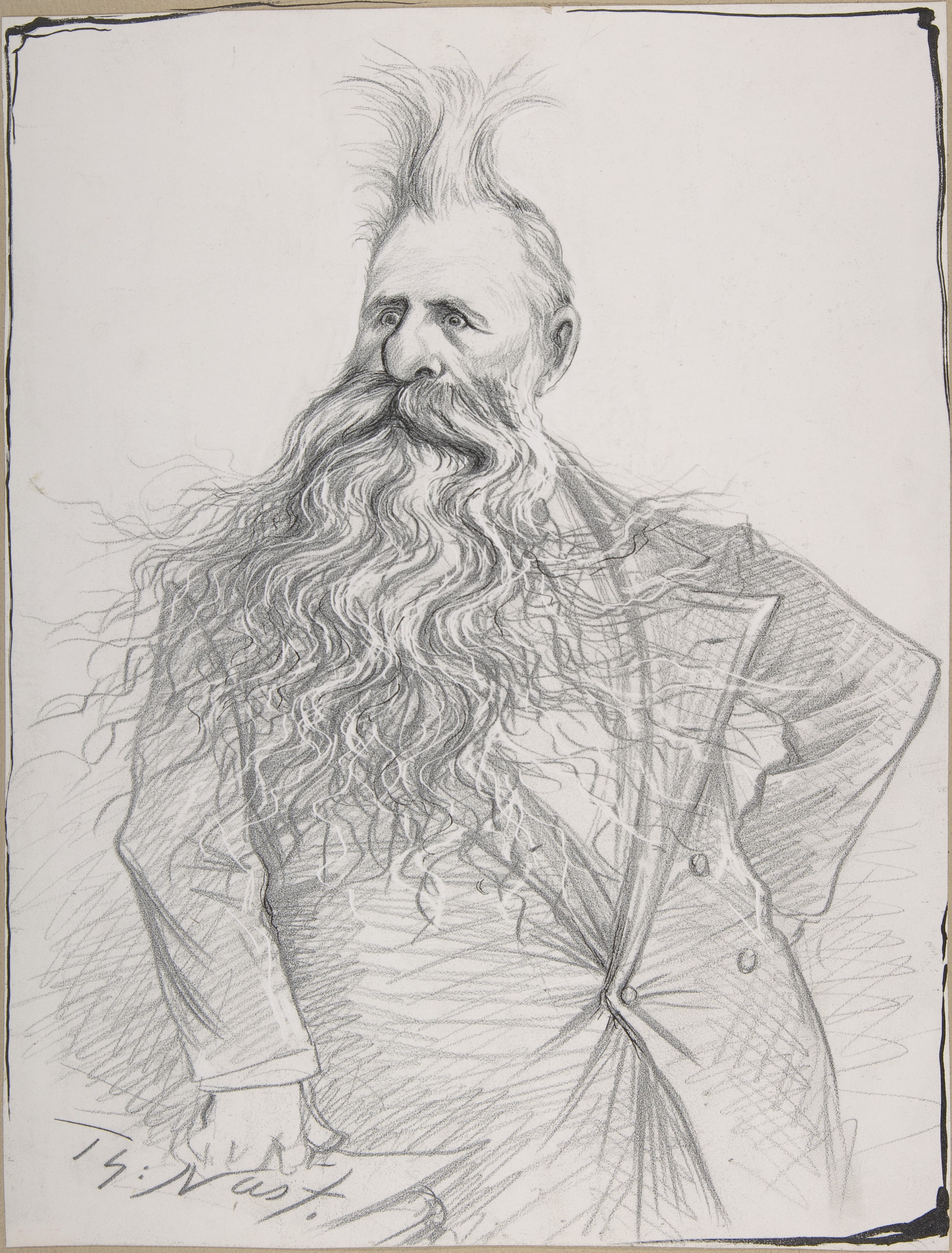 Caricature of senator Joseph N. Dolph